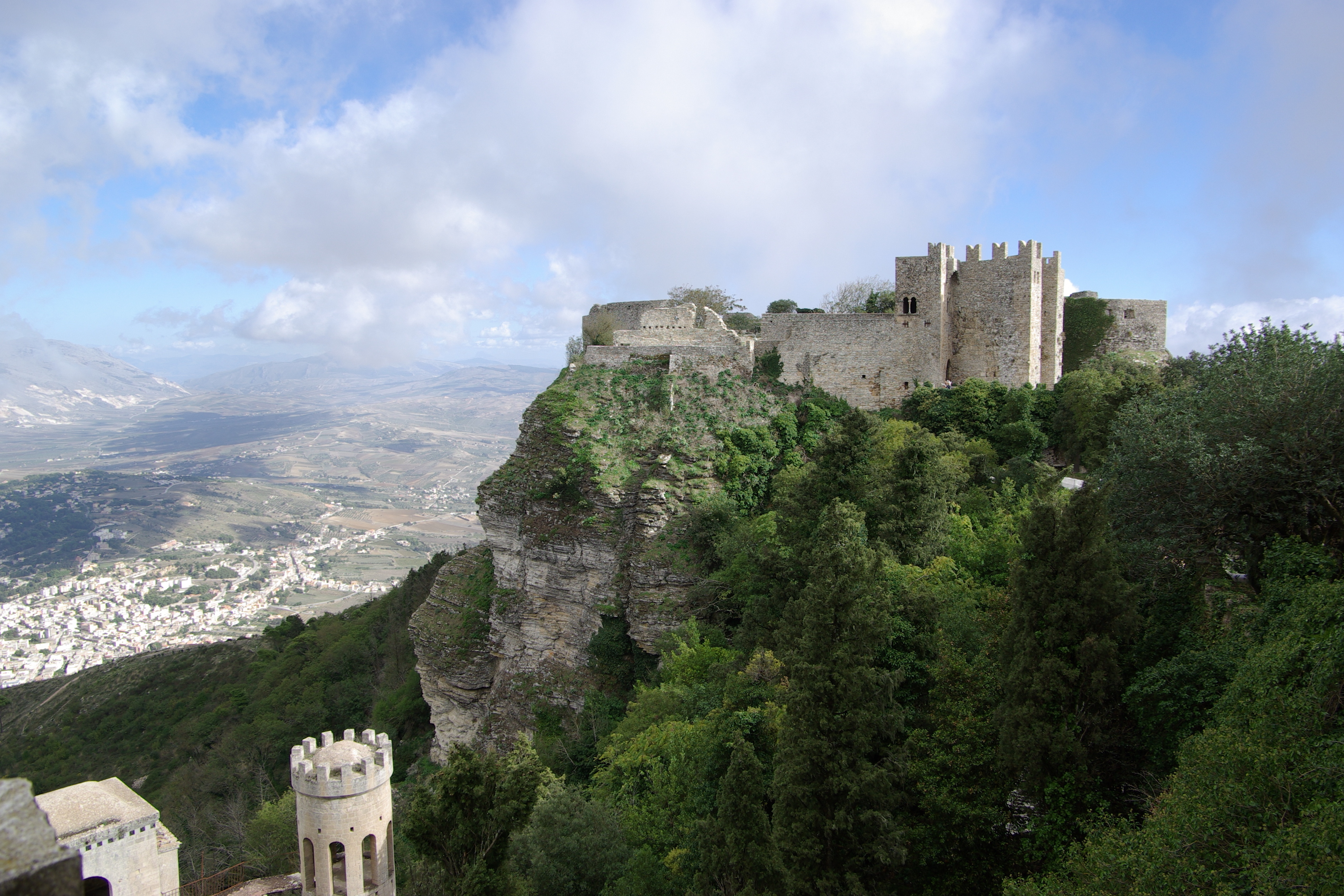 Italy, Sicily, Erice, castle